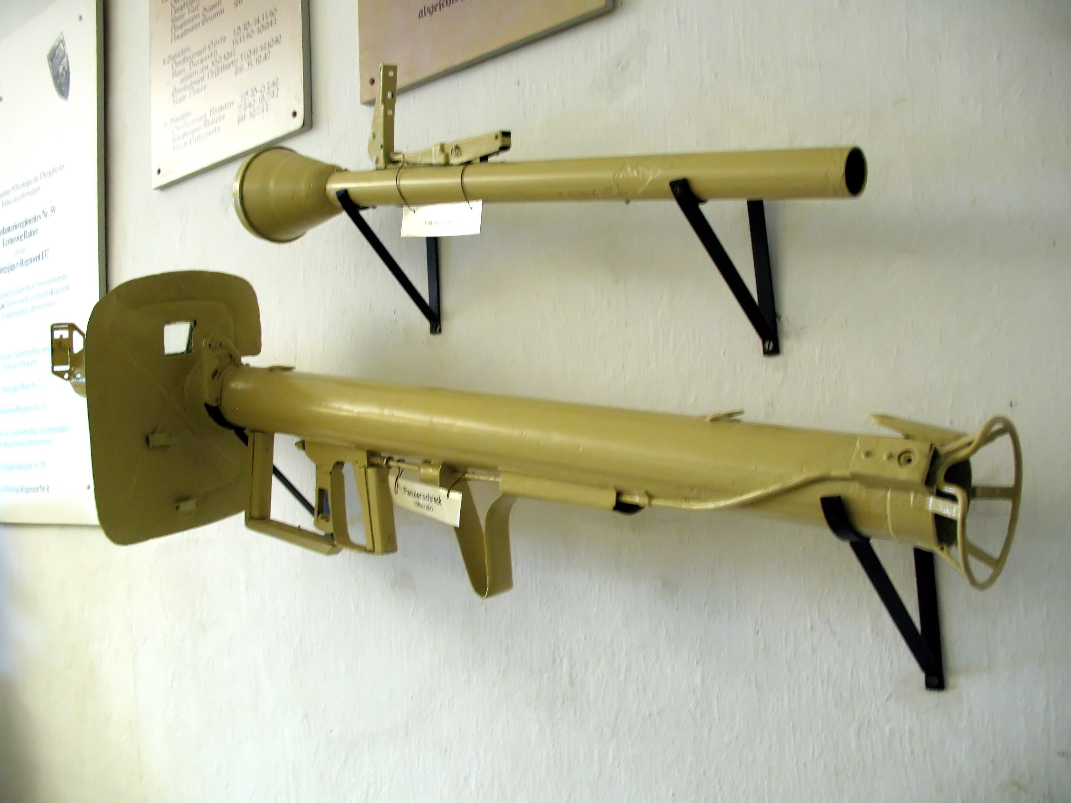 Anti-tank gun and warhead; High Fortress, Salzburg, Austria